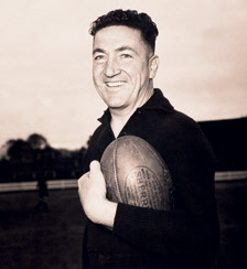 Photo of Percy Bentley in 1941